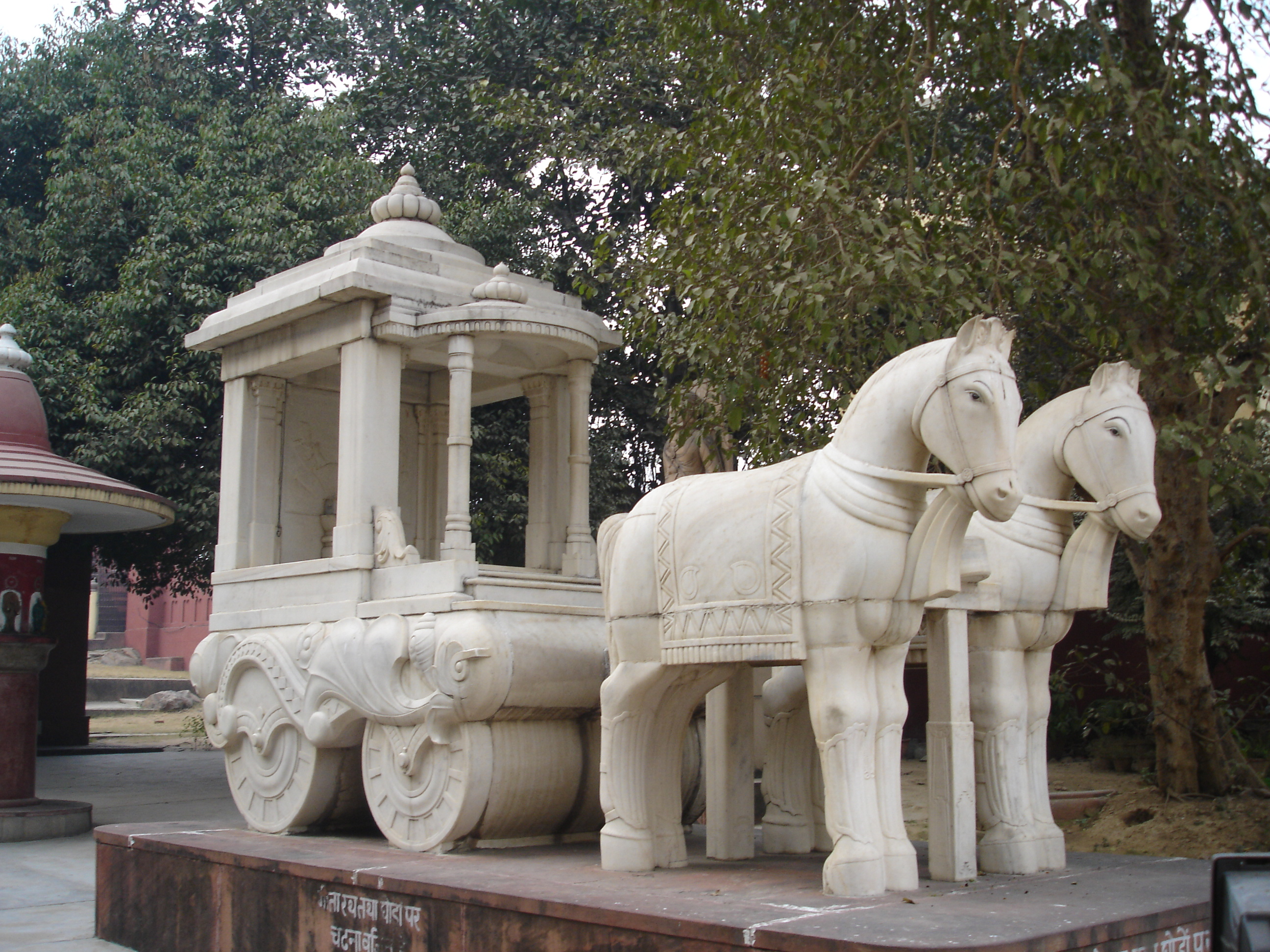 Scupture of a Hindu Horsecart